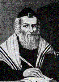 famous engraving of the Vilna Gaon with Tefilin and Talit in typical scholarly pose.